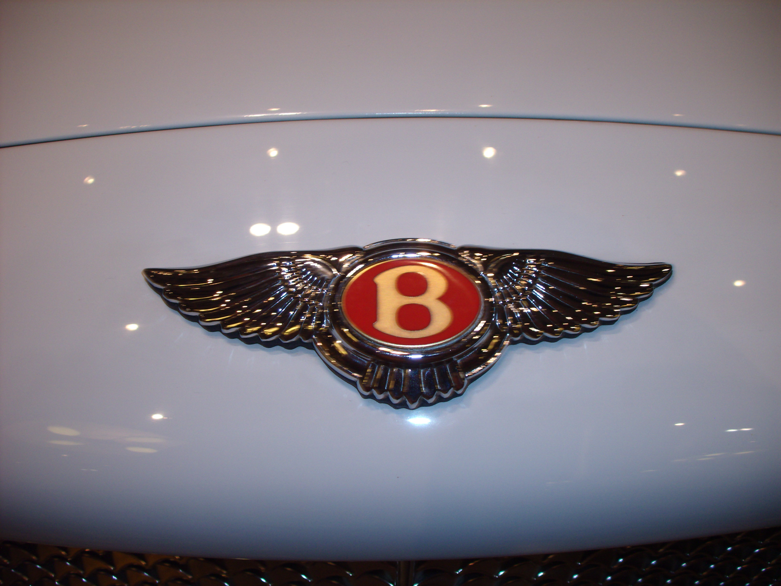 This photograph depicts the Bentley logo on the front of a white 1998 Bentley Arnage.